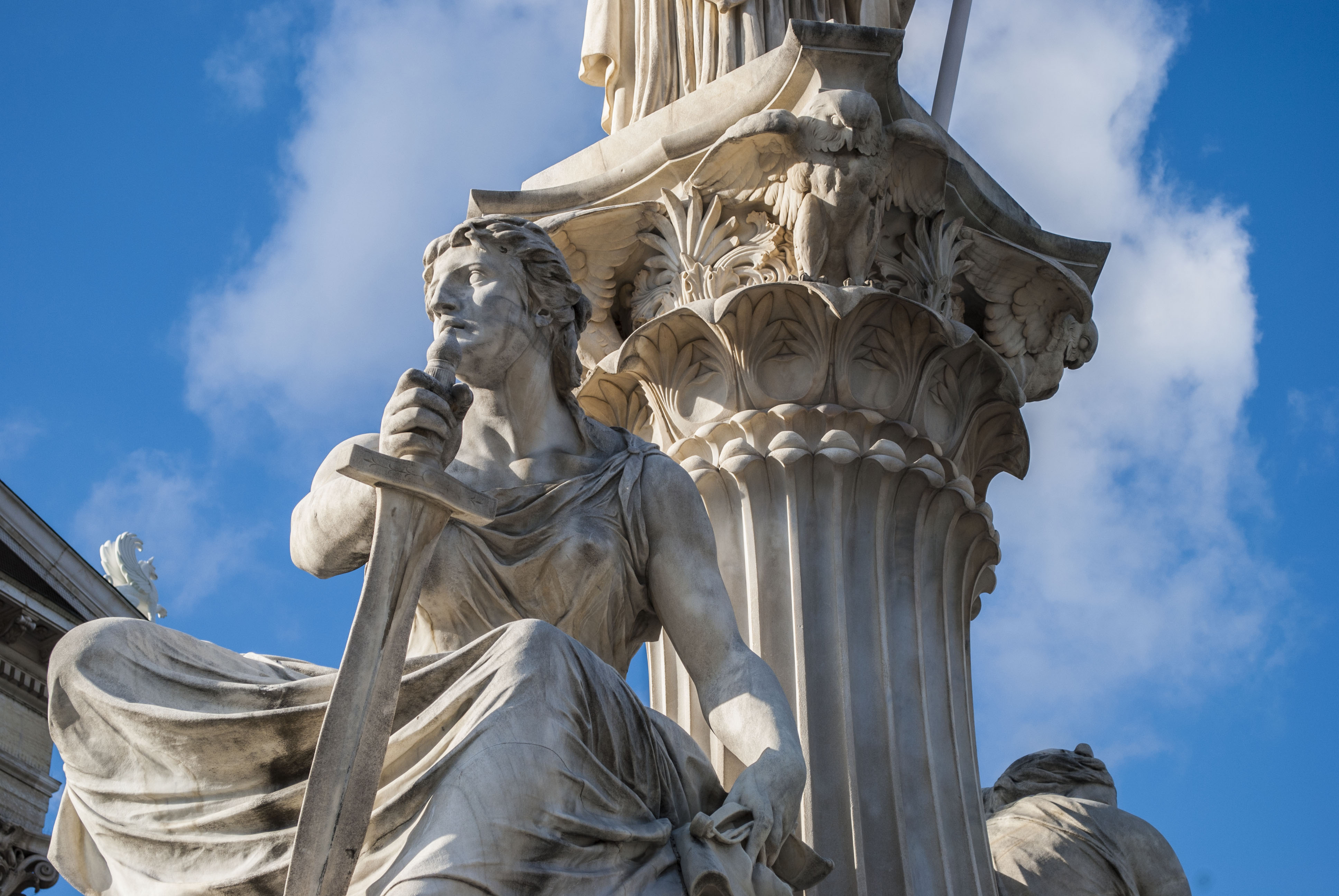 Allegorical statue depicting the governmental executive, part of the Pallas Athene fountain in front of the Austrian parliament building in Vienna.